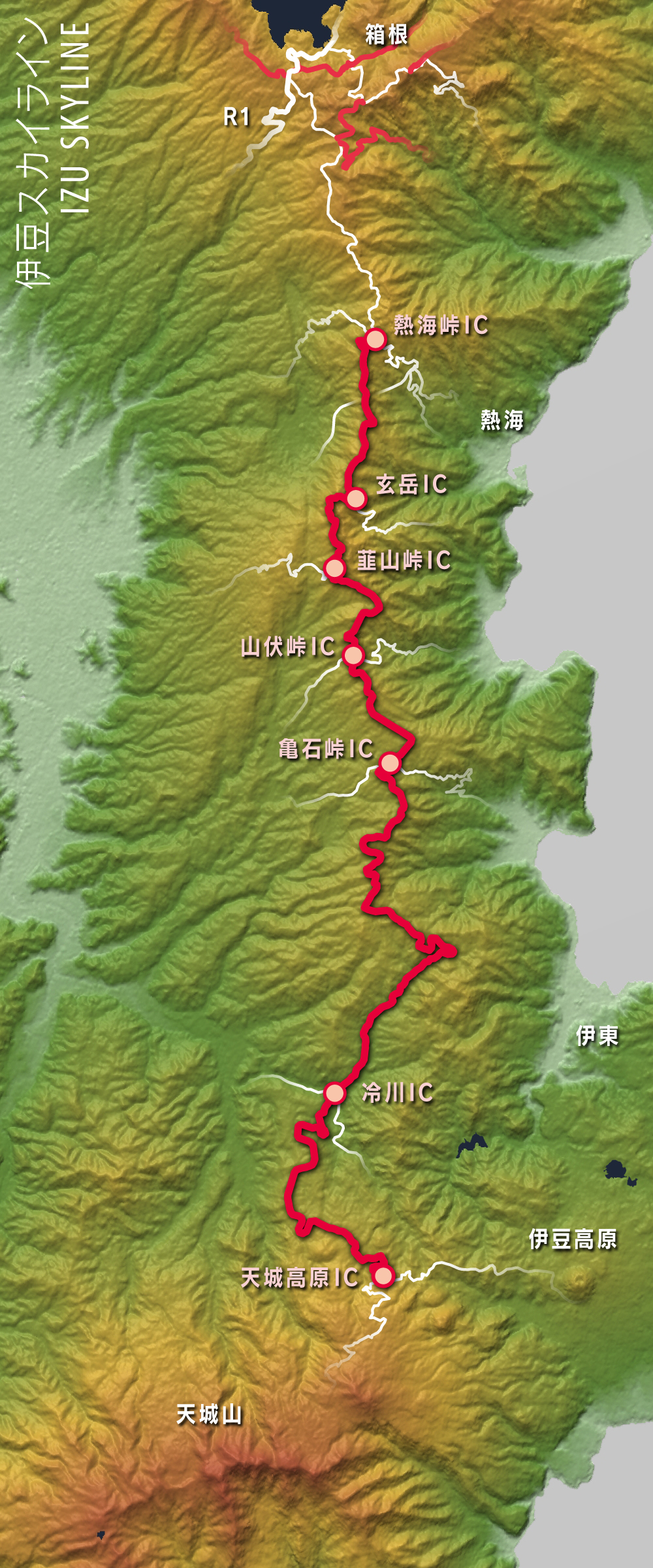 Map of Izu Skyline in Izu Peninsula, Shizuoka Prefecture, Honshu, Japan.